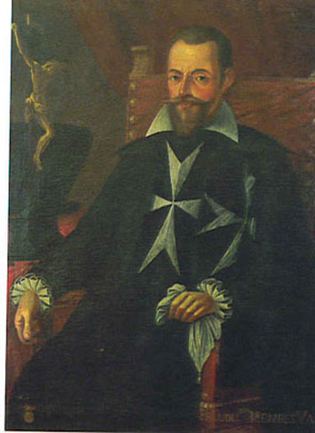 Luís Mendes de Vasconcellos (1542-1623)